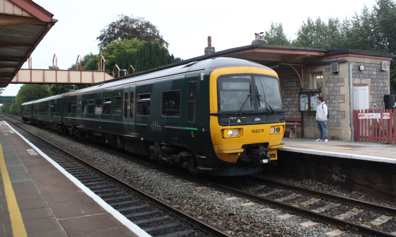 166210 calls at Yatton with a Great Western Railway service to Taunton.